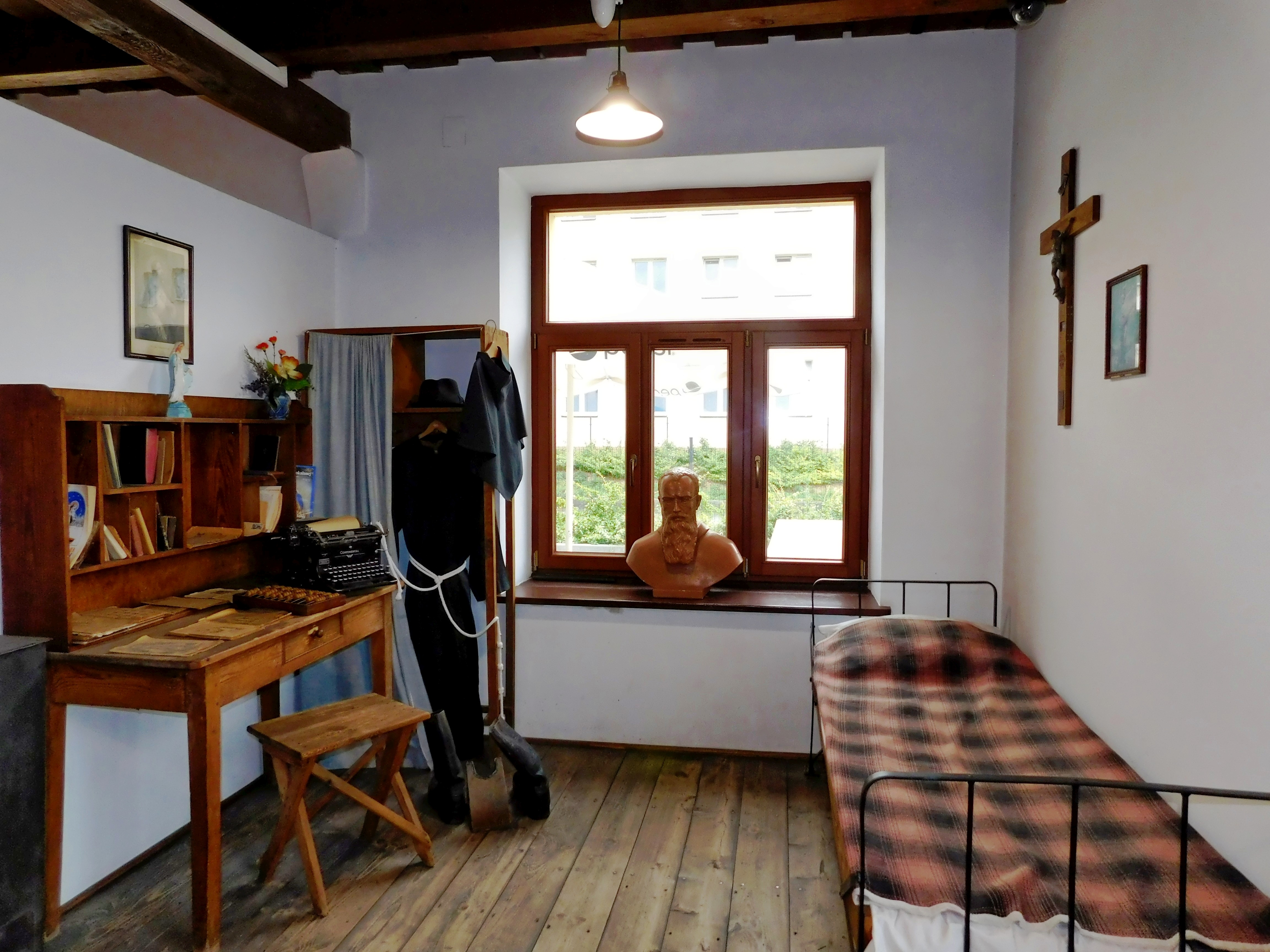 Museum of St. Maximilian Kolbe, opened in 1998. Replica of St. Maximilian's room